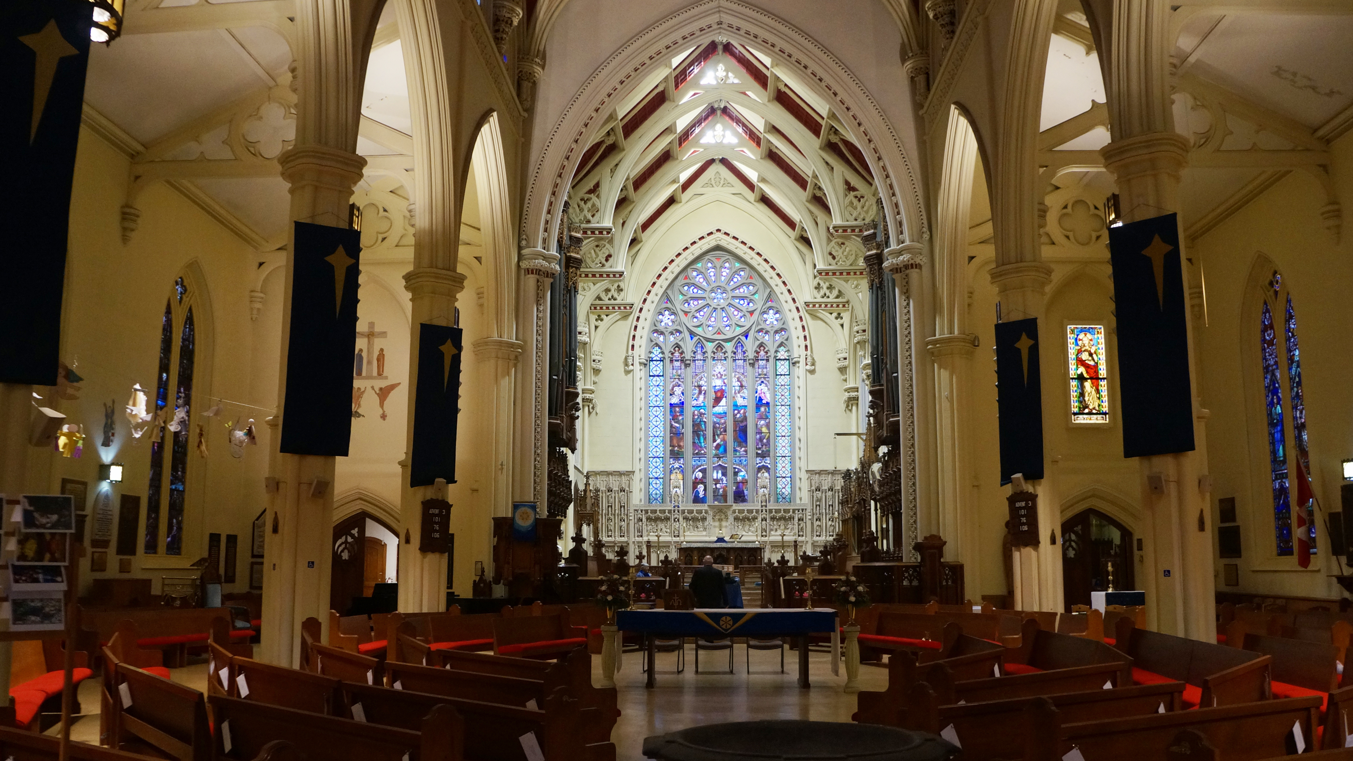 Interior of Christ's Church Cathedral in Hamilton Ontario.